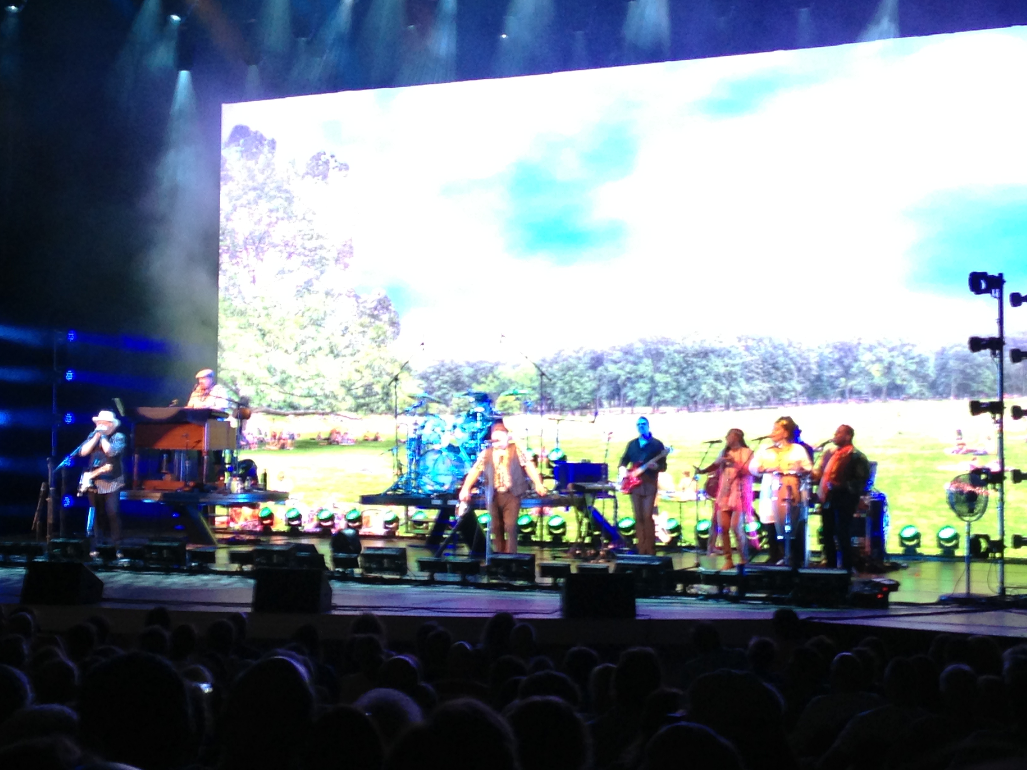 The Rascals performing their 1967 hit "Groovin'" during their 2013 Once Upon a Dream show at the PNC Banks Arts Center in Holmdel, New Jersey. The video screen shows a quiet scene in a park, reflecting the slow, relaxed feel of the song. Guitarist Gene Cornish (far left) is playing the well-known harmonica part from the song.